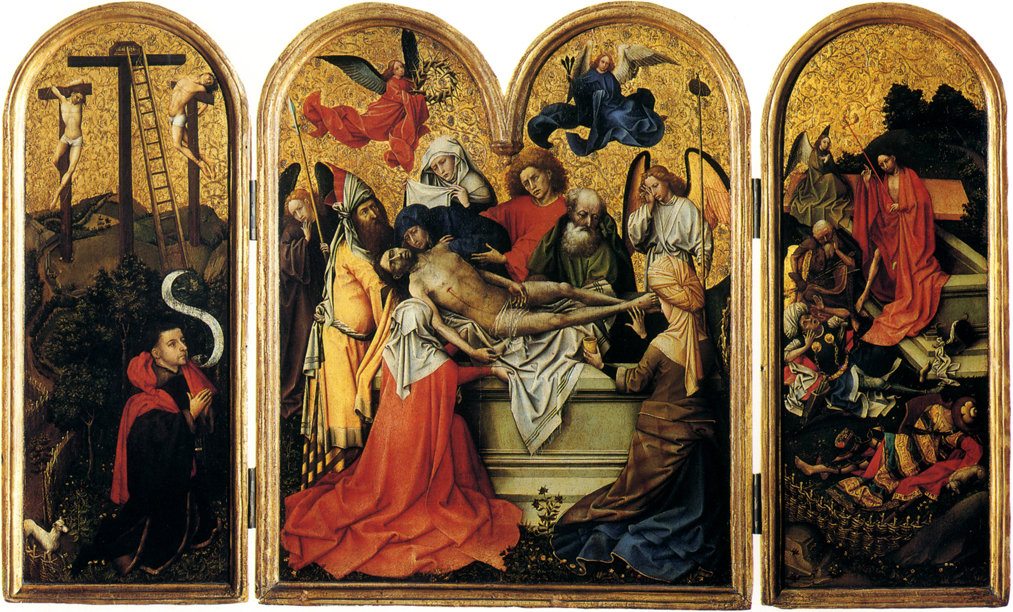 Triptych with the Entombment of Christ Oil on panel, 60 x 48.9 cm (central panel without frame), 60 x 22.5 cm (wing without frame) London, Courauld Institute Galleries